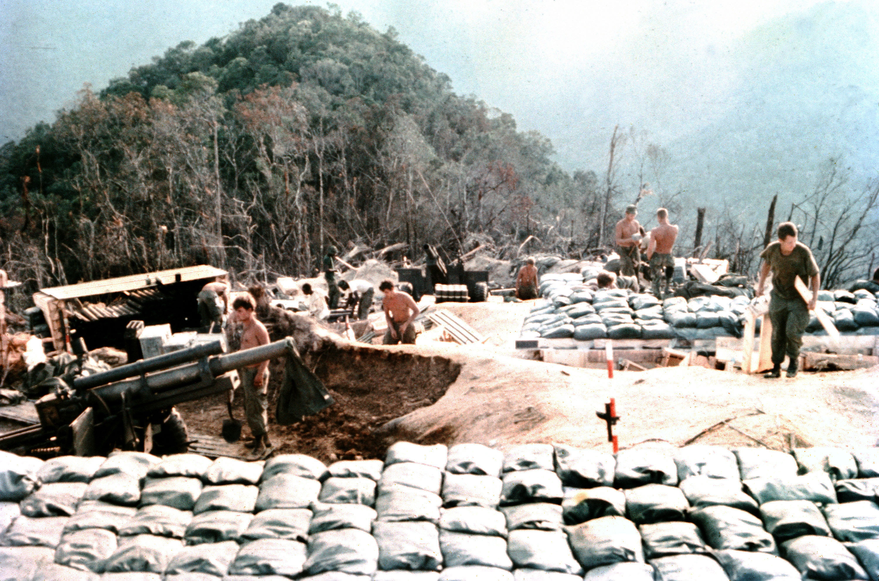 Members of the 3rd Marine Division complete construction of M101 105 mm howitzer positions at a mountain-top fire support base.